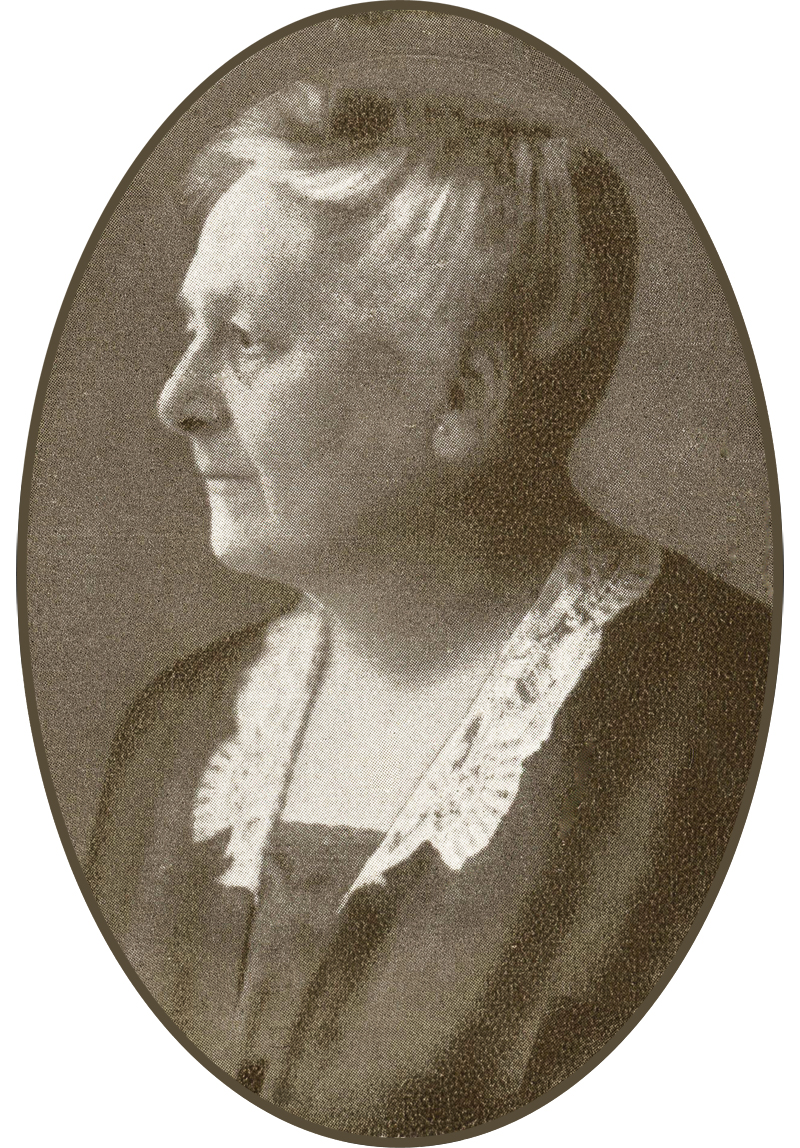 Picture of Henriette May